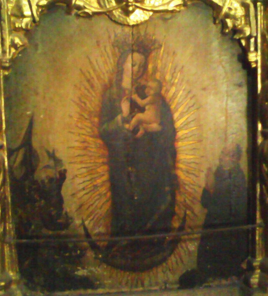 Tabla flamenca. Anónima (¿discípulo de Juan de Flandes?). h. 1530